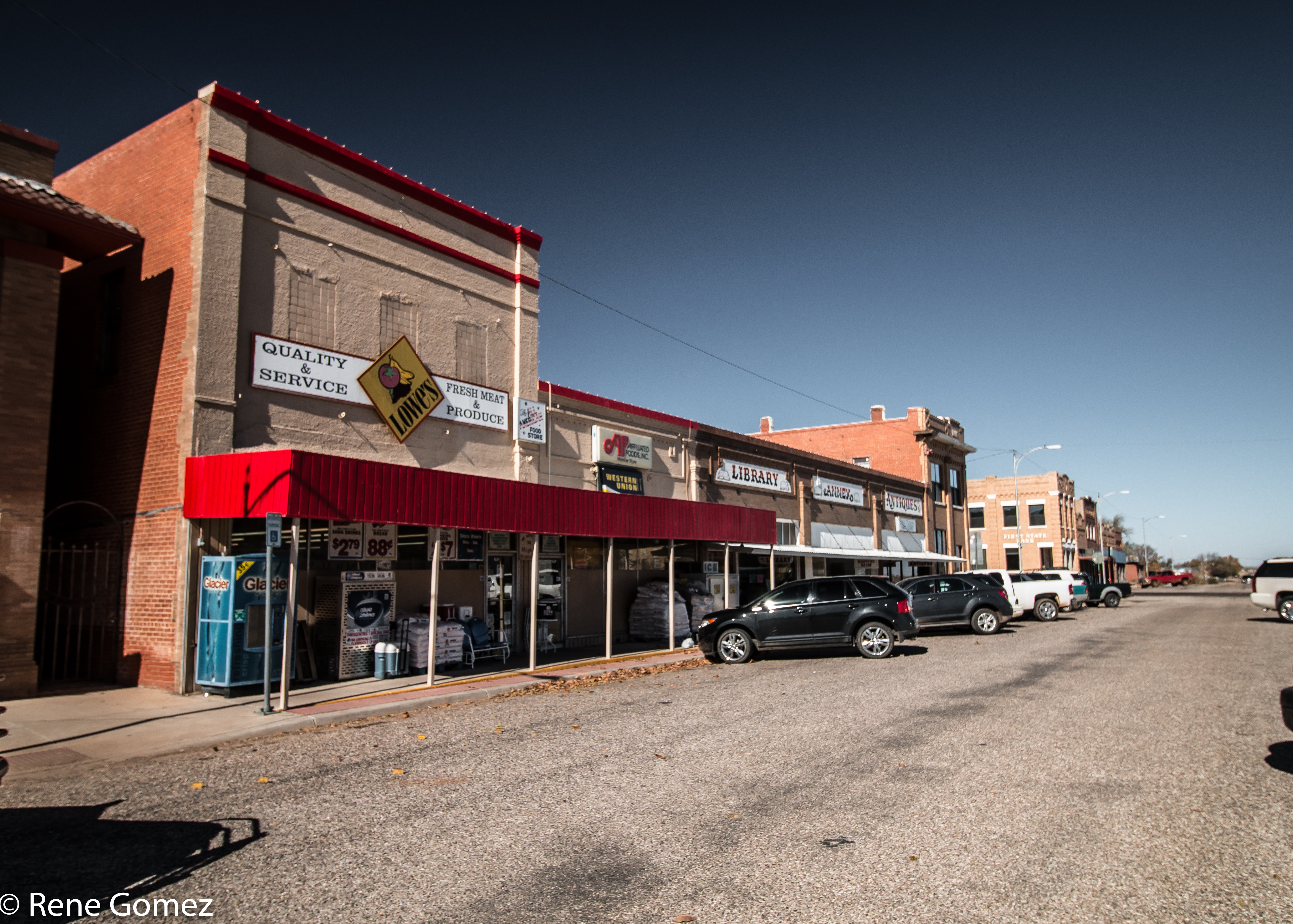 The town of Matador, Texas